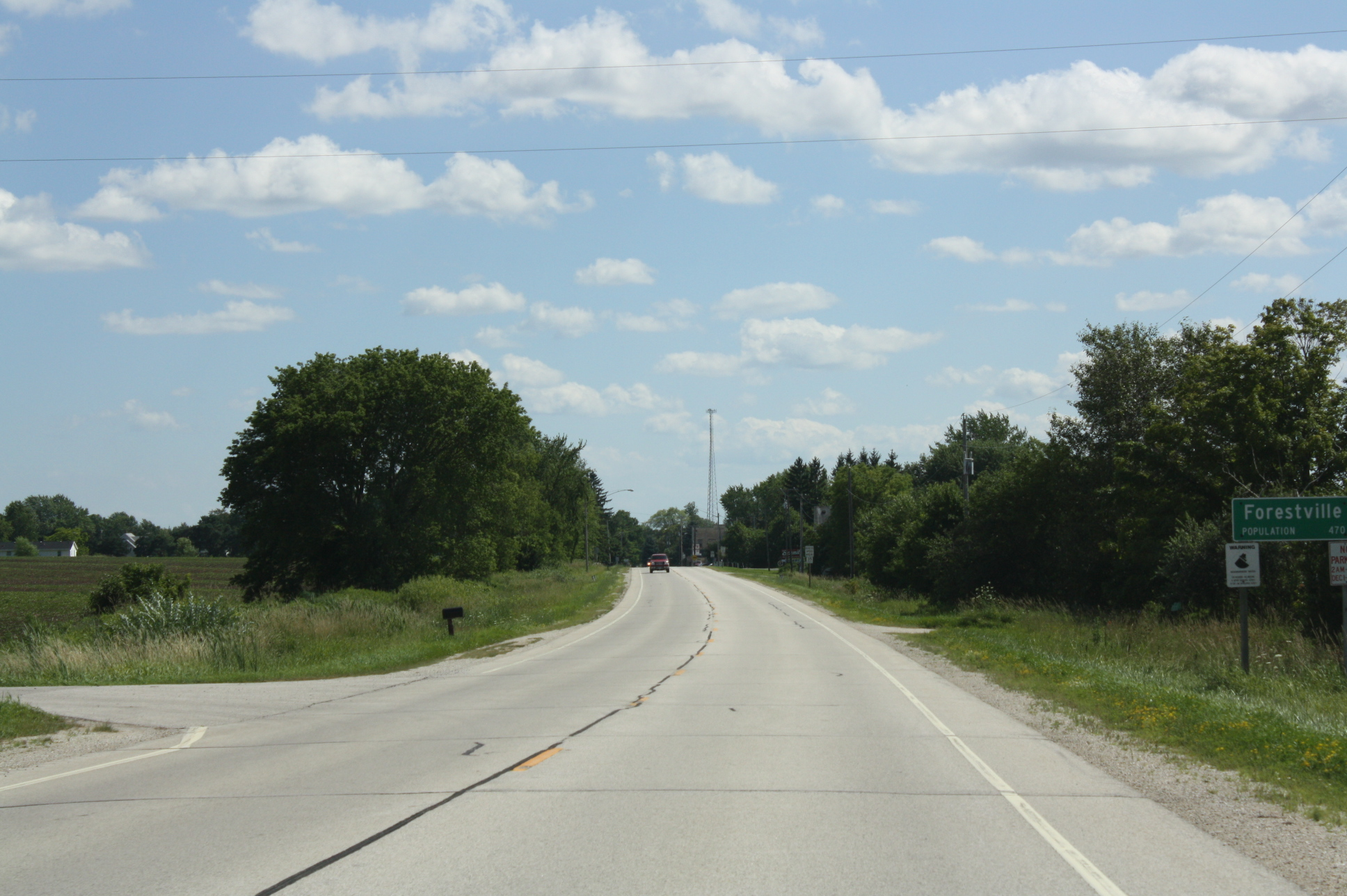 Looking south at the the sign for Forestville, Wisconsin on Wisconsin Highway 42.